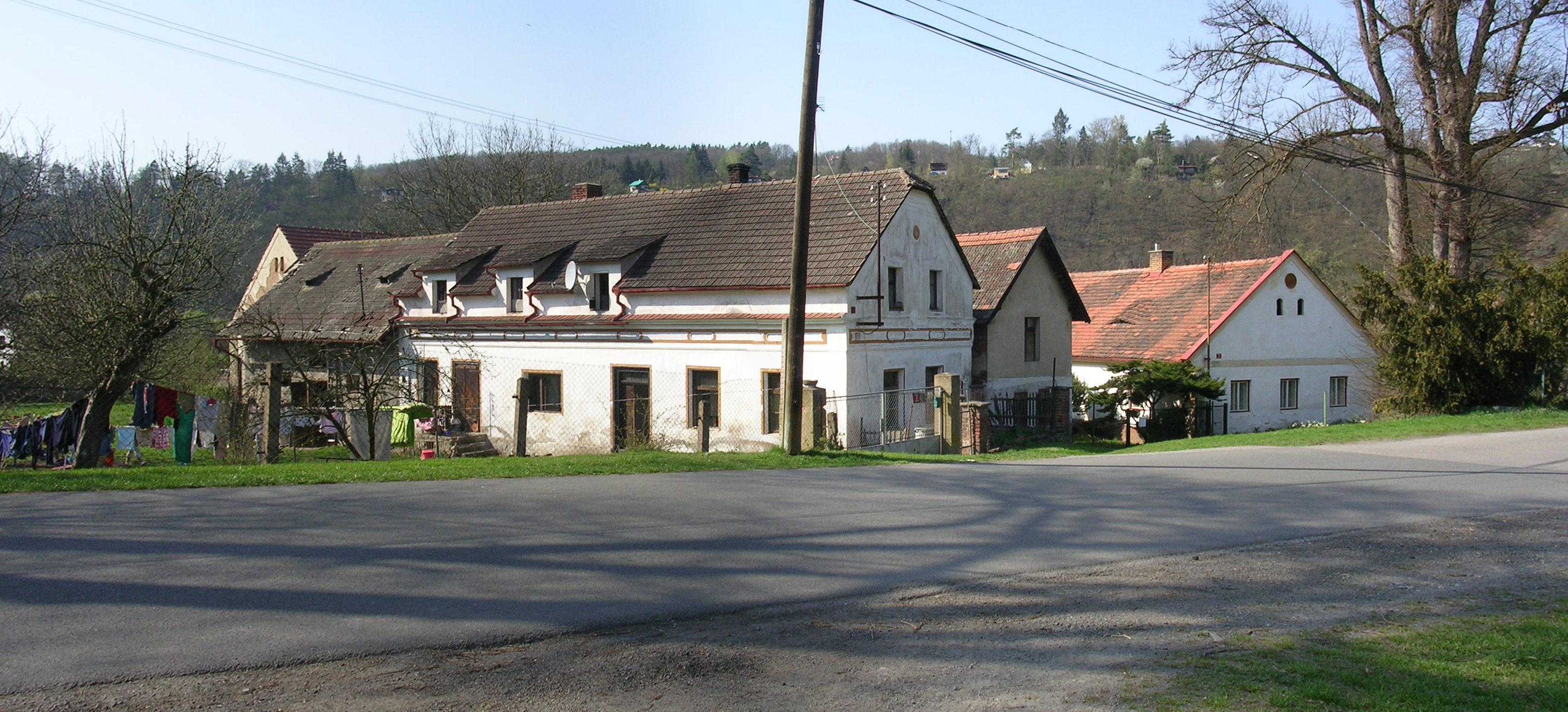 Hradištko-Pikovice, Central Bohemian Region, the Czech Republic.